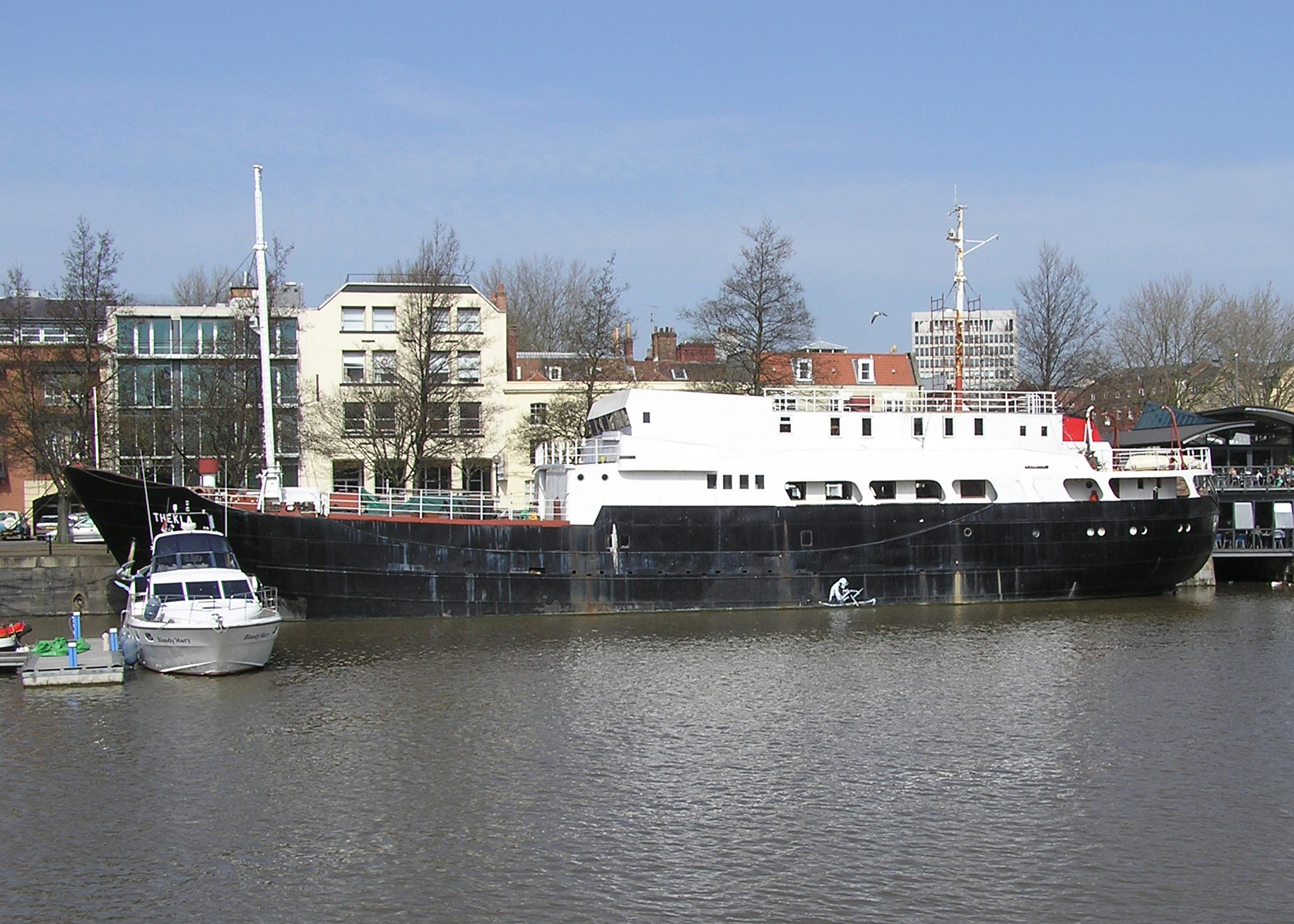 Thekla in 2005, moored at The Grove, East Mud Dock, Bristol, England. The Skeleton Rower graffiti is by Banksy.